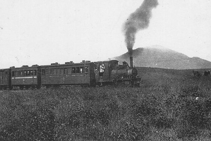 Kusatsu Light Railway in Taisho era